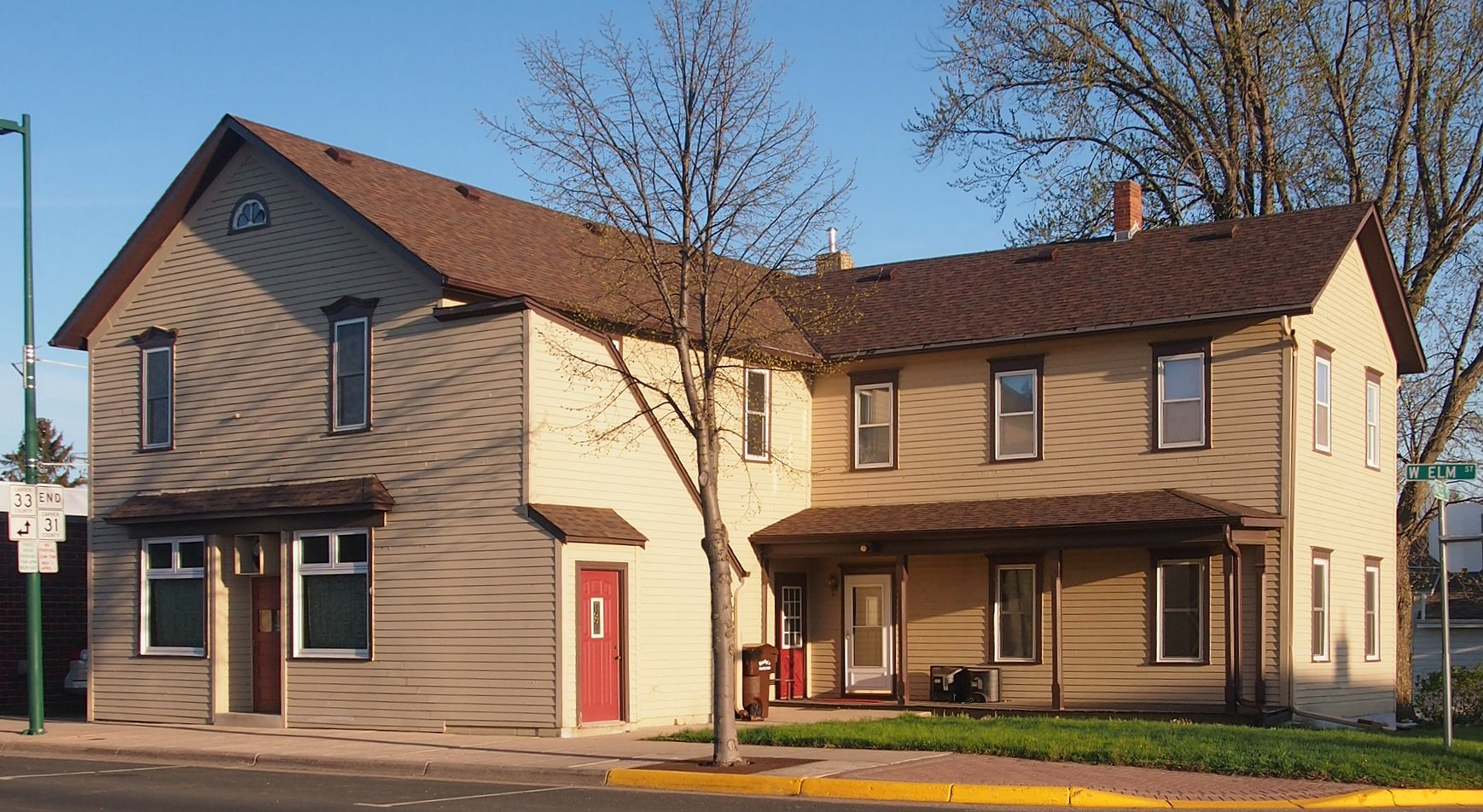 Winter Saloon, Norwood Young American, Minnesota, USA. Viewed from the northwest.